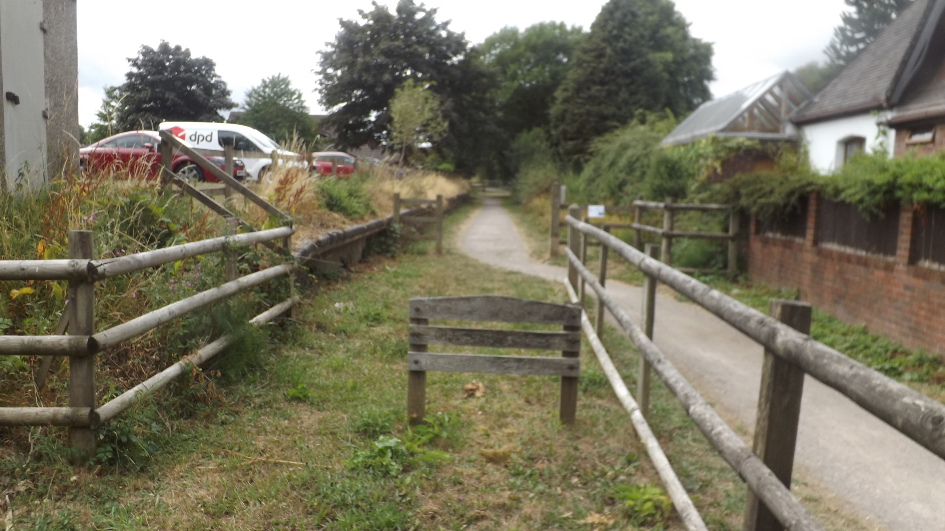 My own.